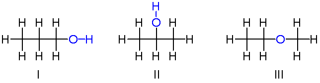 Structural isomers